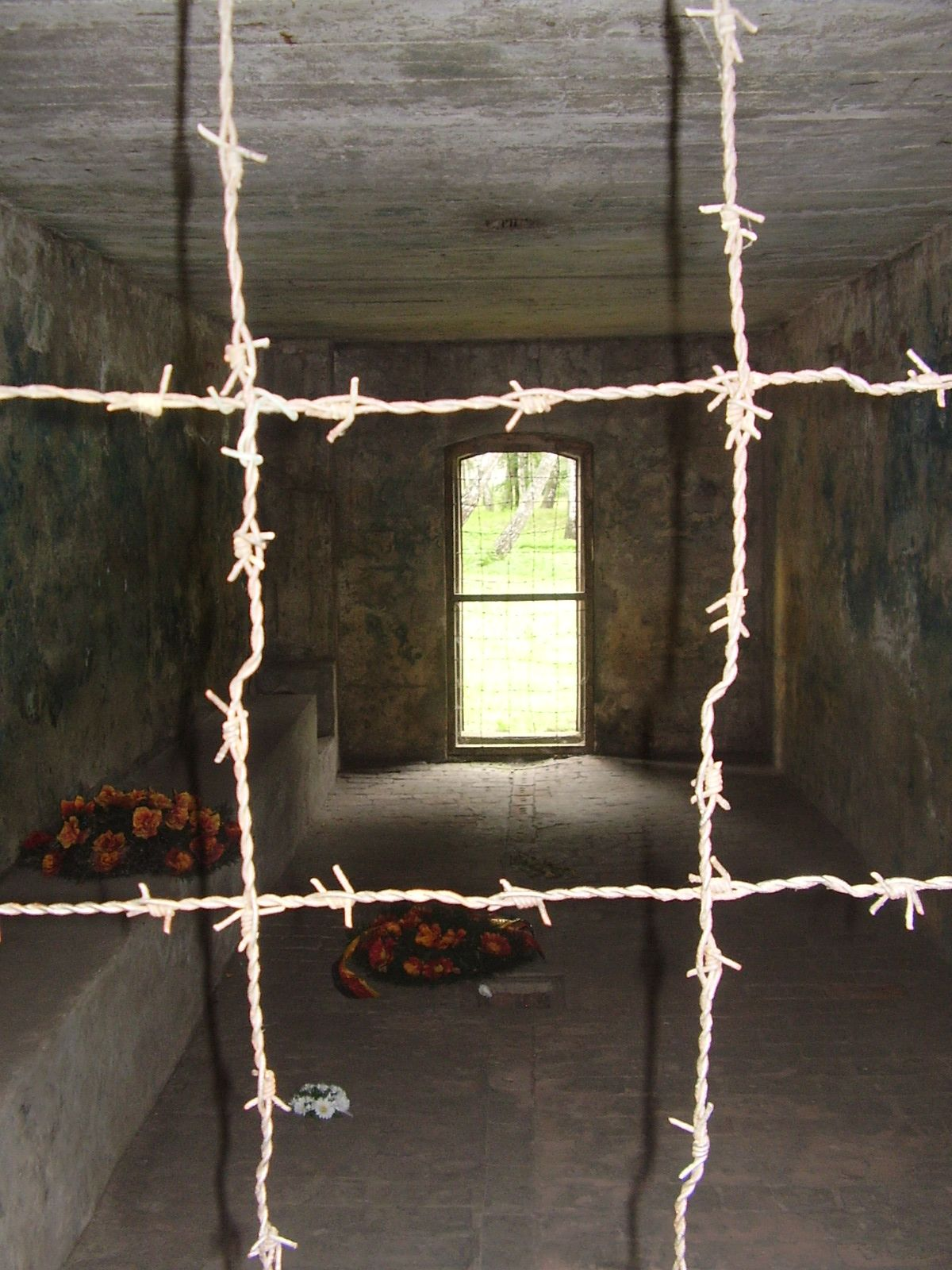 Interior of gas chamber, Stutthof concentration camp.